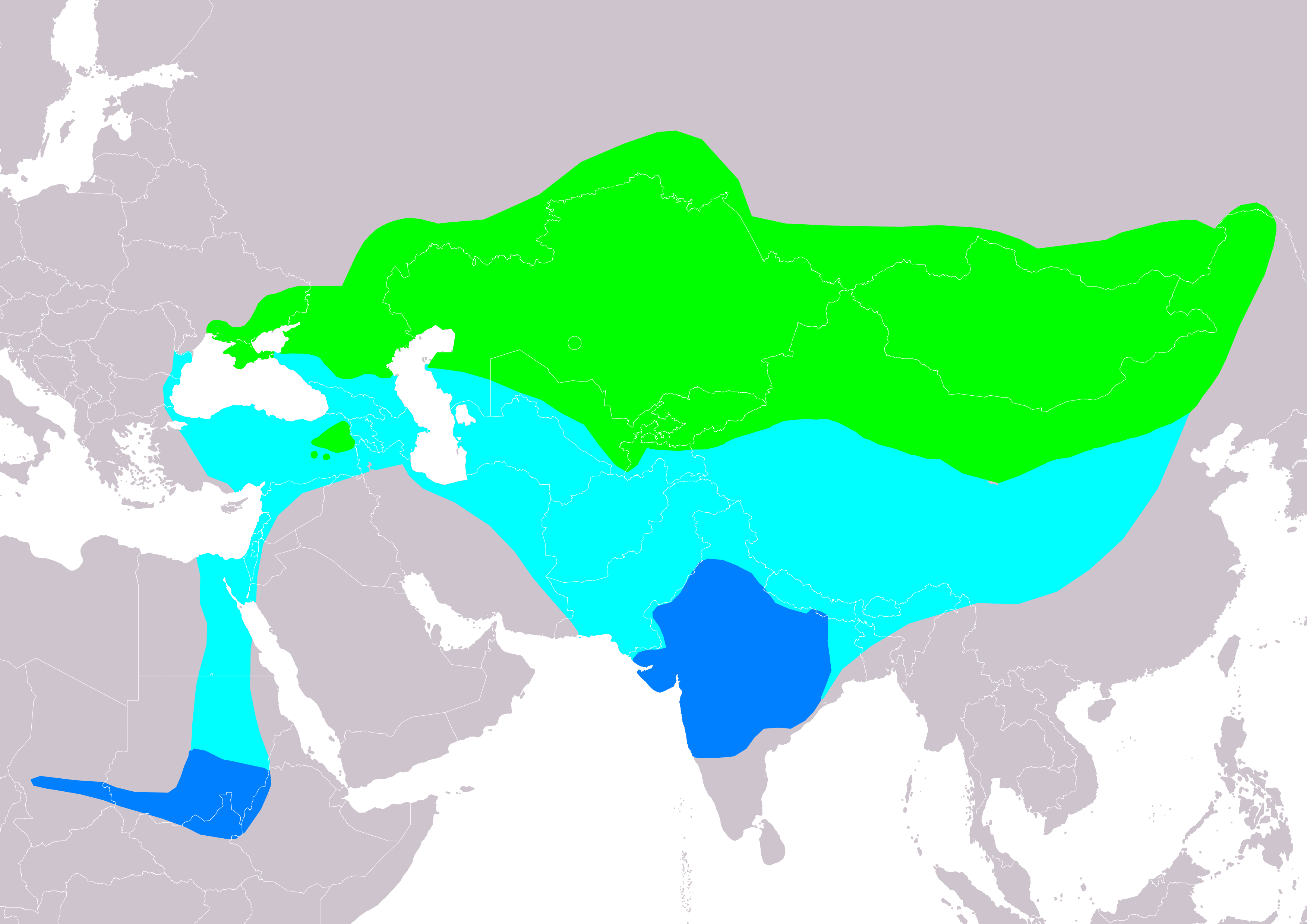 The distribution map of demoiselle crane (Grus virgo) according to IUCN version 2019.1 ; key: Legend: Extant, breeding (#00FF00), , Extant, passage (#00FFFF), Extant, non-breeding (#007FFF)